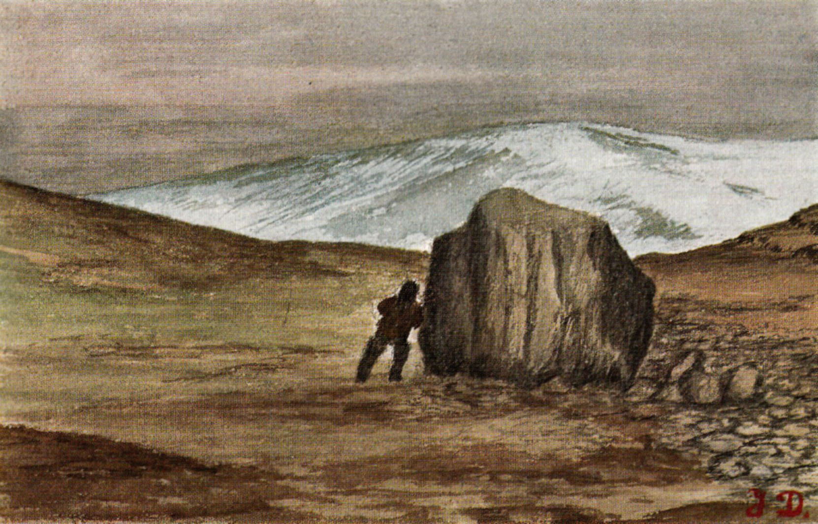 Jakob Danielsen - 05 Kaassassuk moves rock